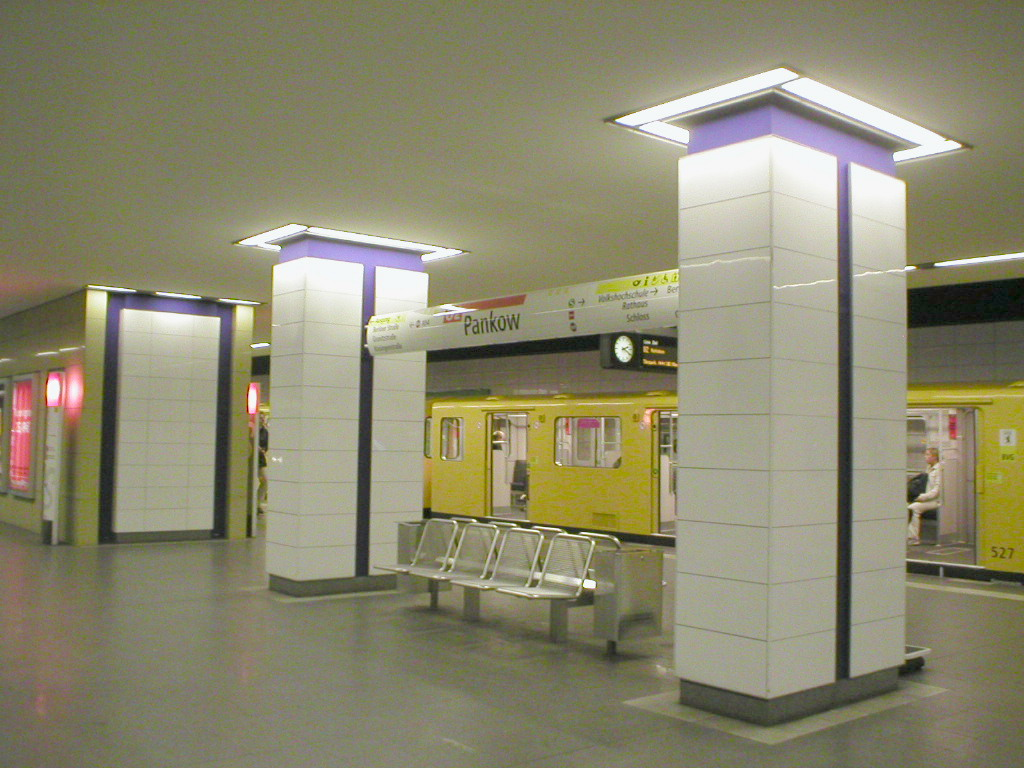 Berlin's underground station Pankow, Berlin, Germany